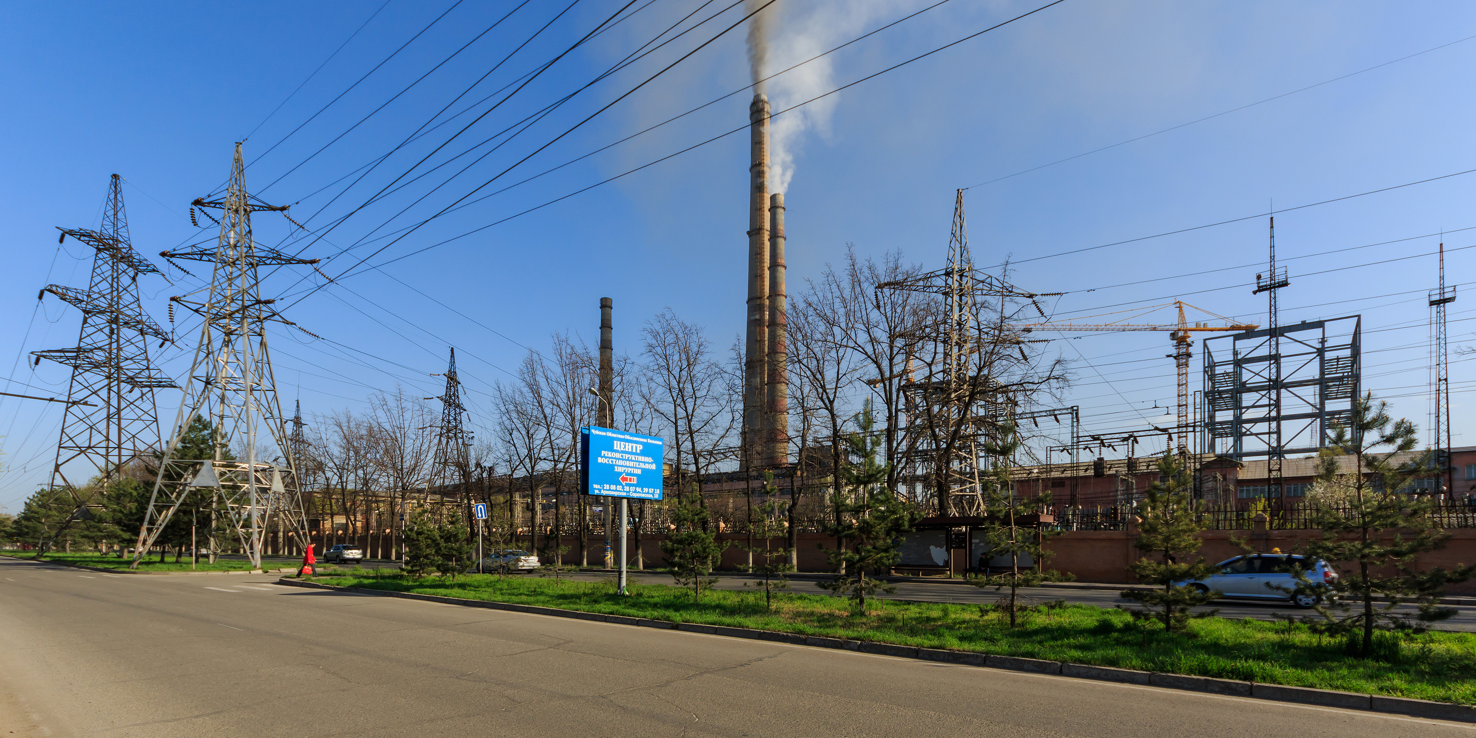 CHP-1 power plant in Bishkek, Kyrgyzstan